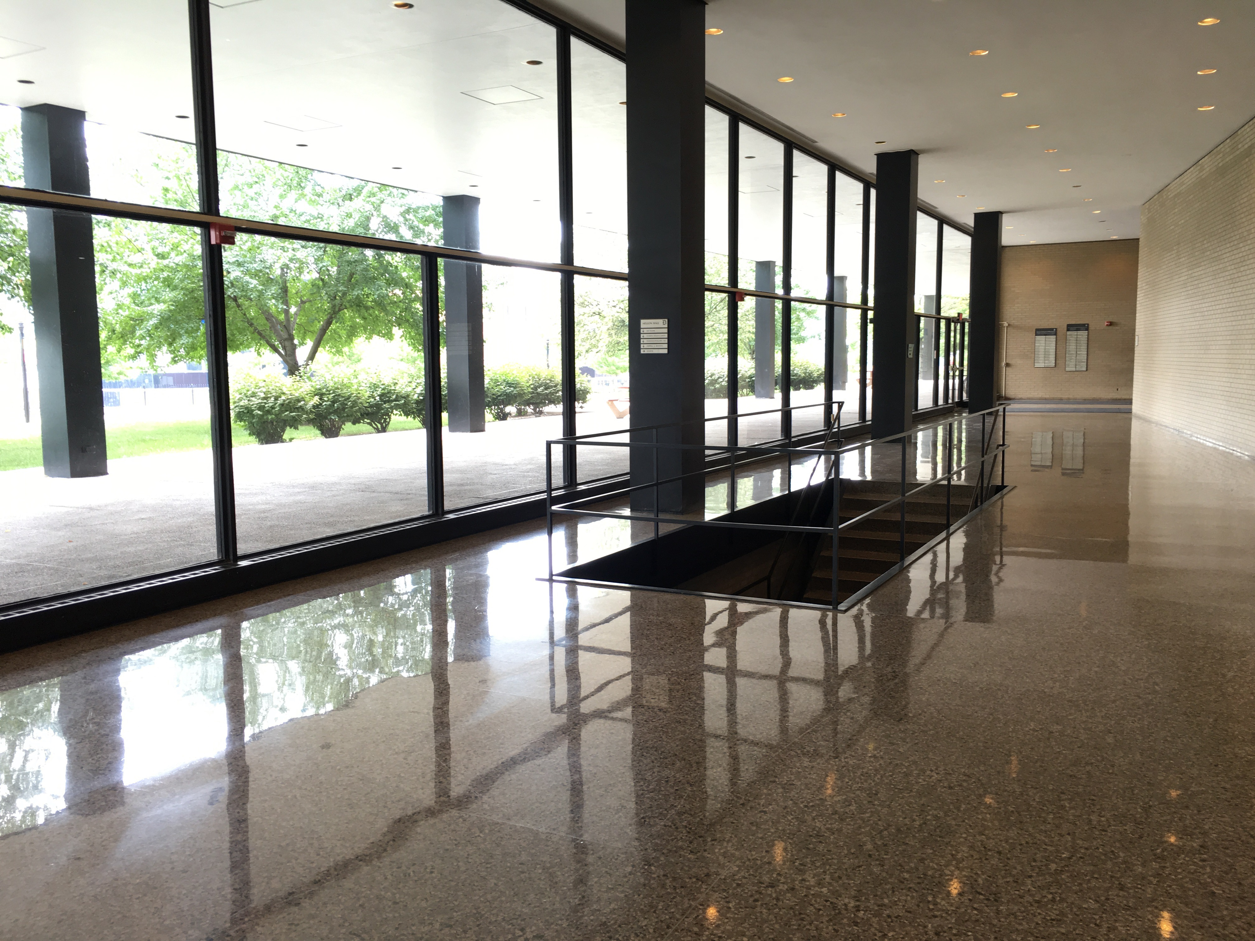 South lobby of the Richard King Mellon Hall on the Dusquene University campus in Pittsburgh, Pennsylvania, USA. This building was designed by Mies van der Rohe